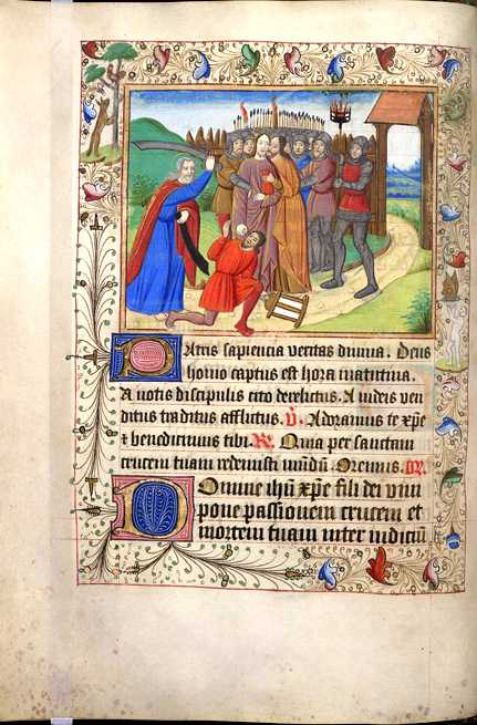 This is a remarkably large and lavishly illuminated Book of Hours, combining French and English styles. The first leaf contains a list of obits members of the royal family and of the 4th, 5th, and 6th Earls of Ormond and their wives, so it was probably made for Anne Boleyn's grandfather, Thomas Butler (1426-1515), 7th Earl of Ormond, or a member of his family. It was given in the early 16th century to a chapel at 'Suthwyke', probably Southwick in Hampshire. In some Books of Hours the Hours of the Virgin have the Hours of the Cross mixed in, as in this example. Here, the Hours of the Cross are introduced by a half-page miniature showing several events simultaneously: Judas kissing Christ to indicate to the soldiers who he is; the soldiers arresting him; St. Peter cutting off Malchus's ear, and Christ healing it.